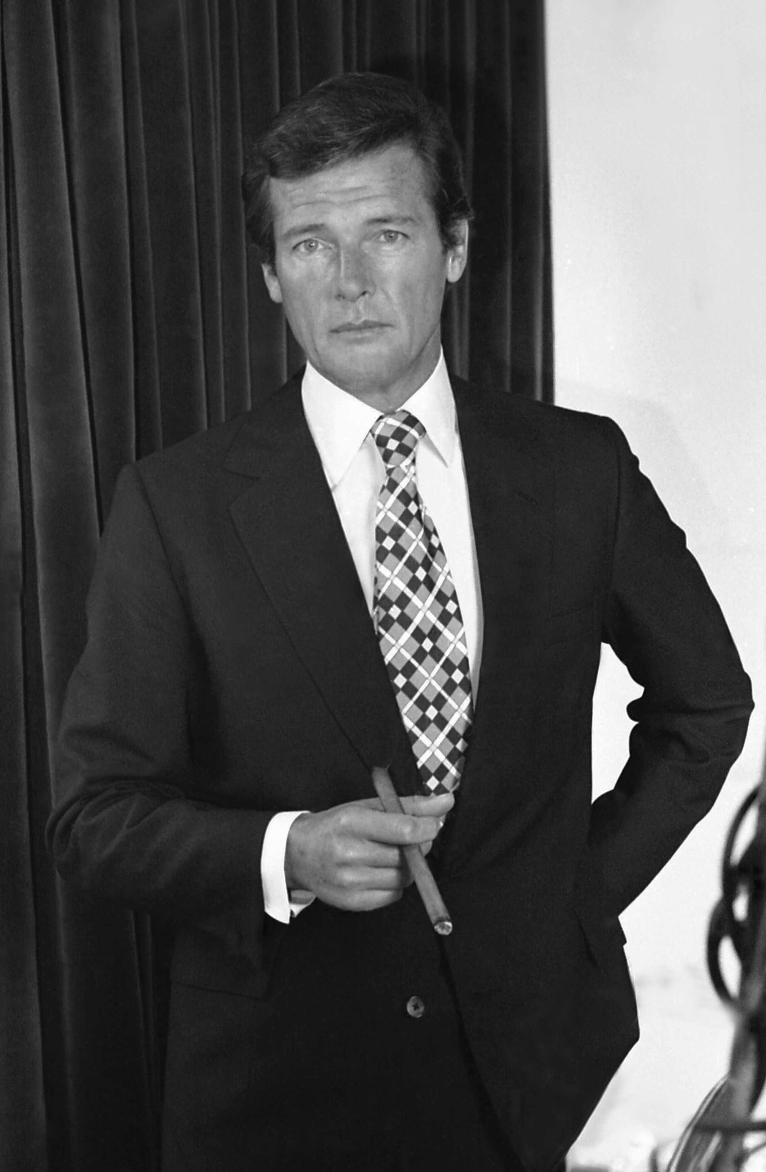 Sir Roger Moore taken in photographer's studio Belgravia London